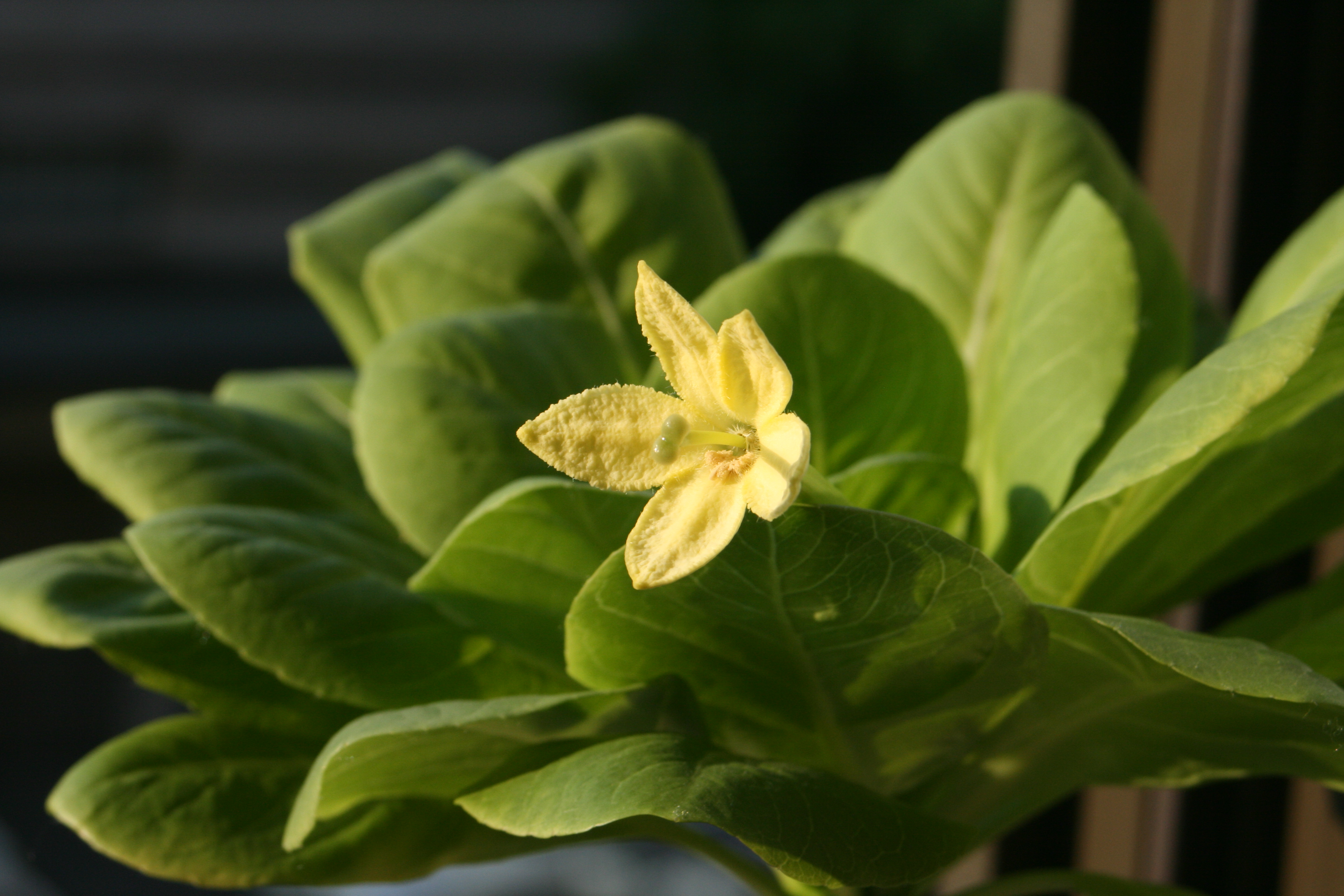 Brighamia insignis flower frontview